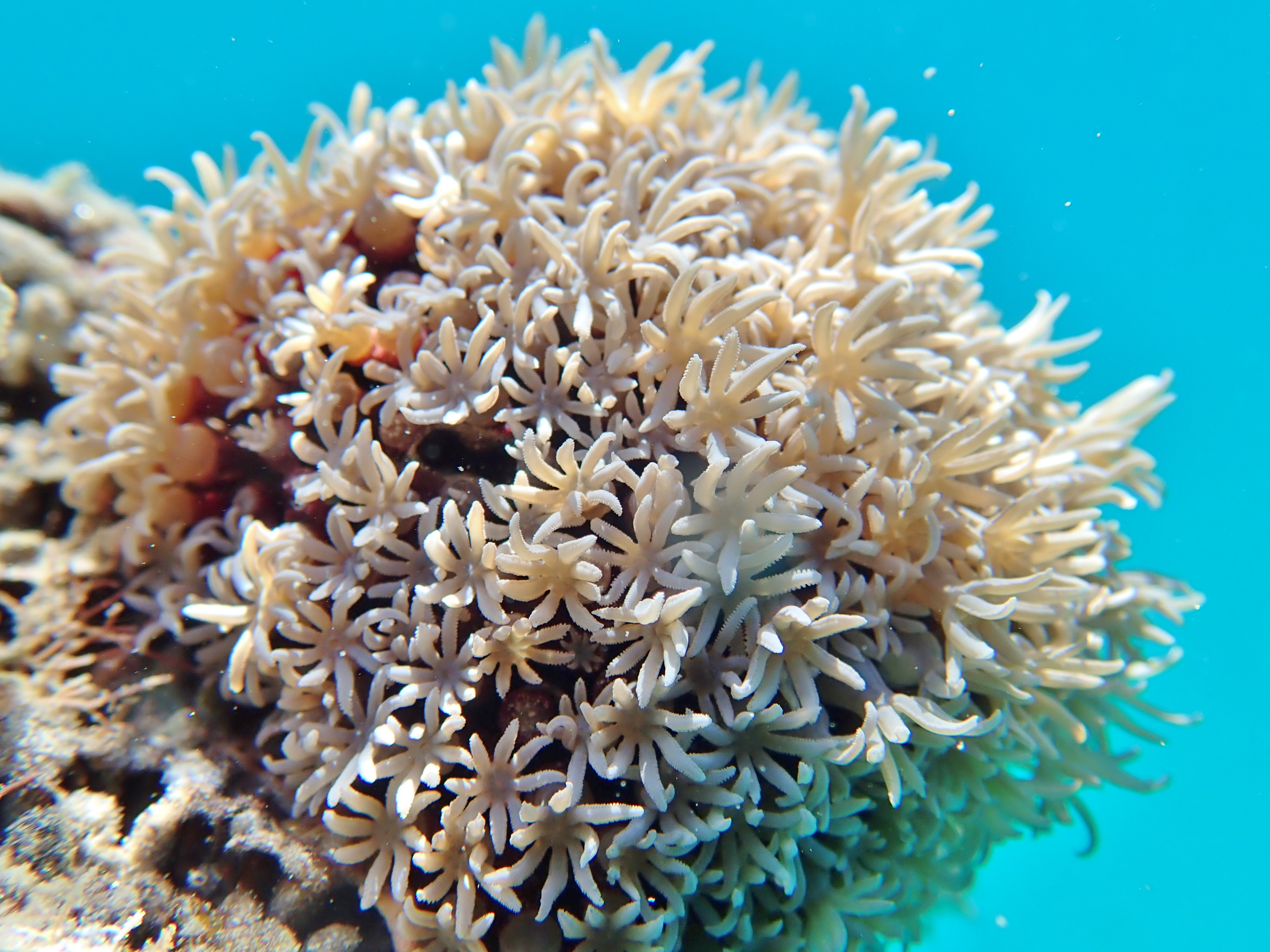 An "organ pipe coral" Tubipora musica, in Mayotte.